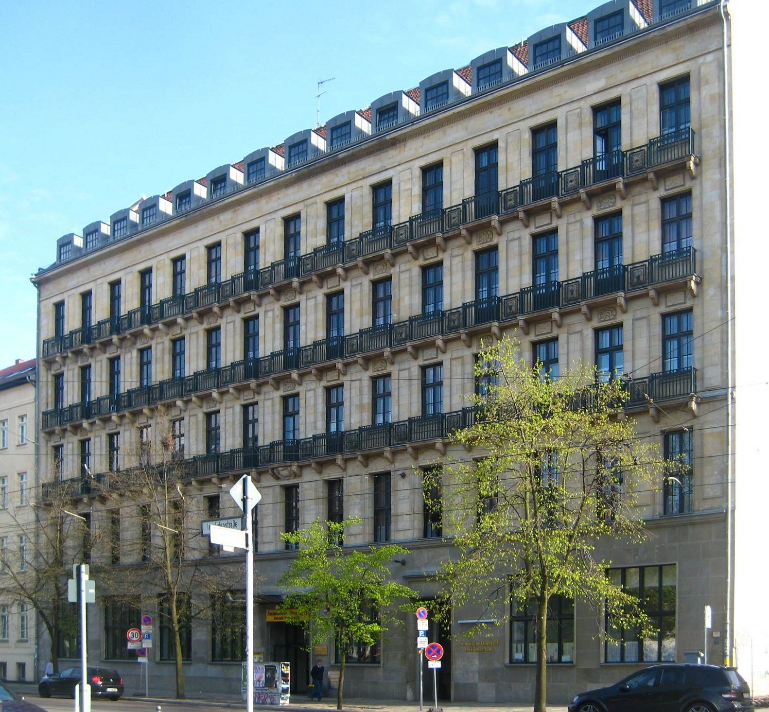 The former Hotel Baltic at Invalidenstraße No. 120-121 in Berlin-Mitte, now "Senioren-Domizil Invalidesntraße" (senior citizen home). The building was constructed in 1911 to a fesign by Hans Bernoulli. It has been designated as a historic landmark.